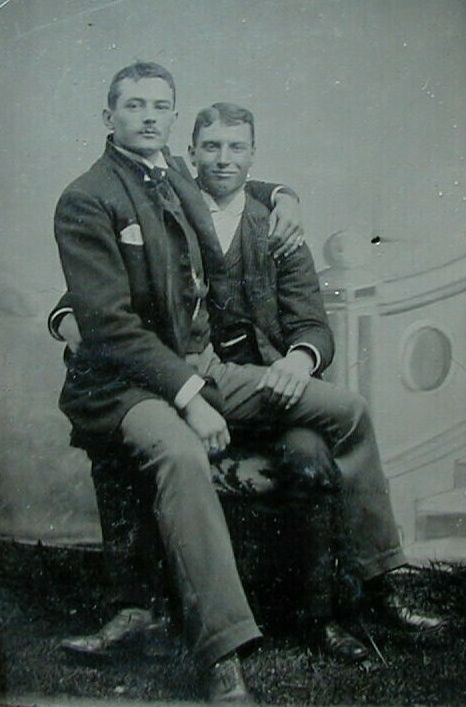 Male couple, One sits on the lap of the other one.